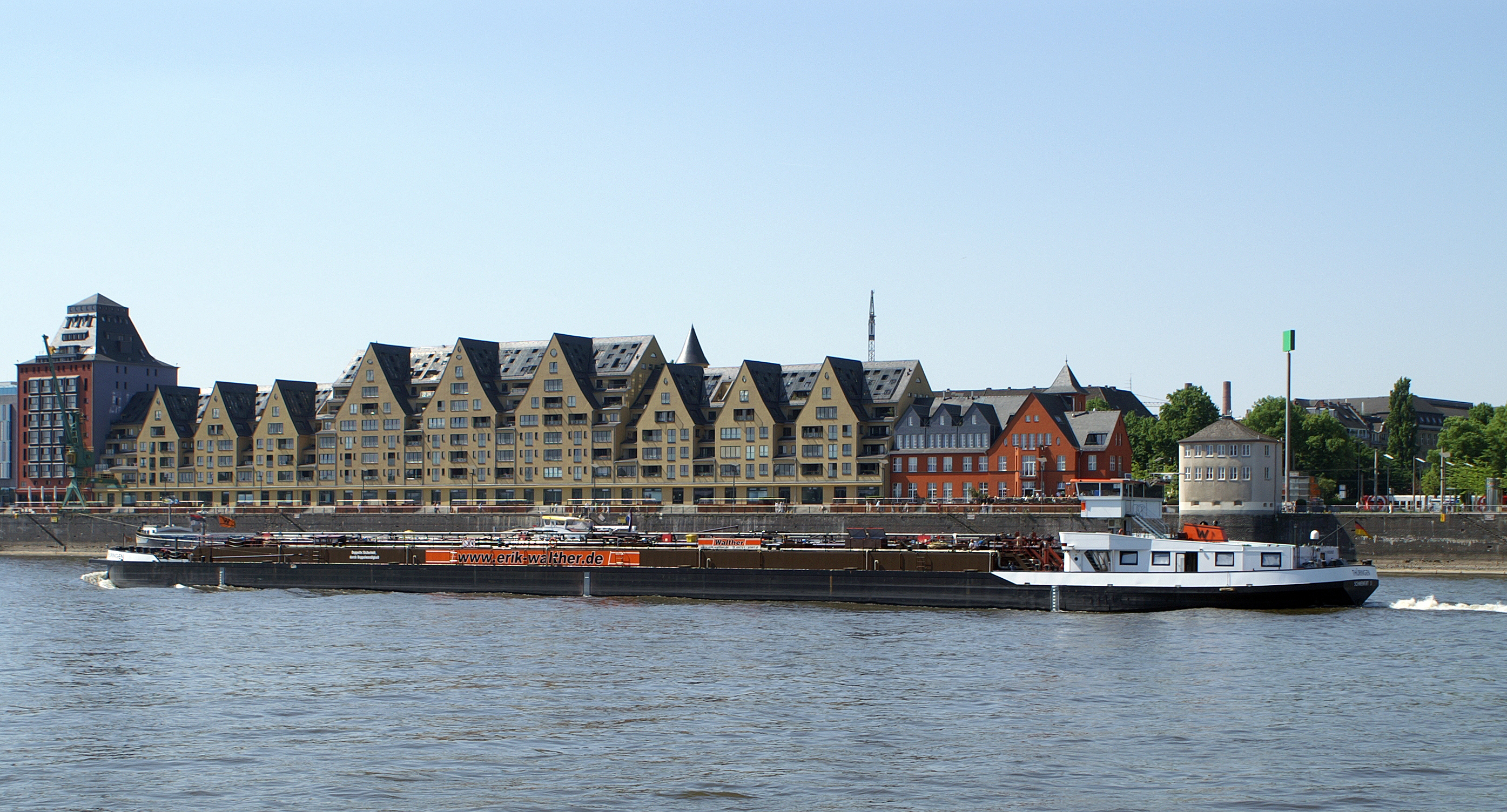 Tank ship Thüringen in cologne.